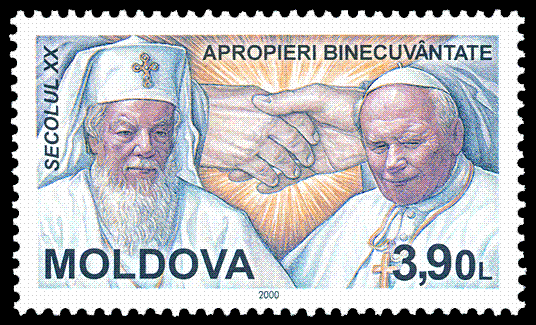 Stamp of Moldova